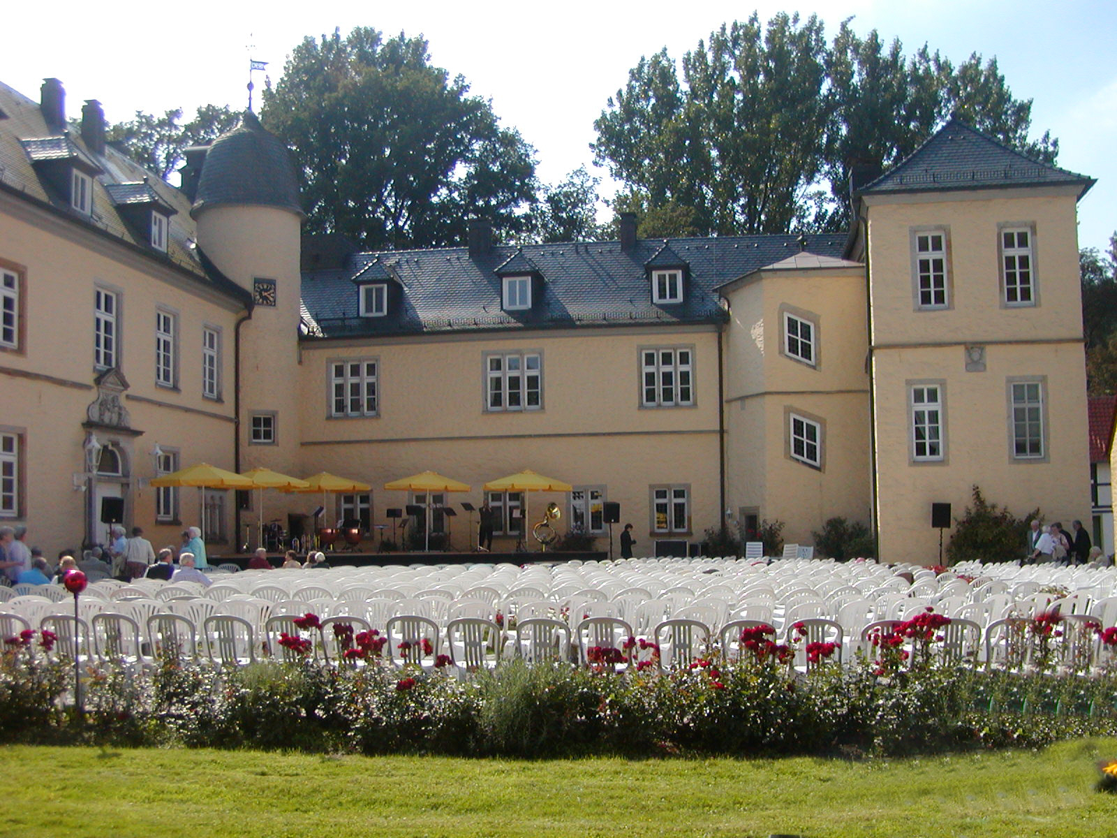 This is a photograph of an architectural monument. It is on the list of cultural monuments of Preußisch Oldendorf